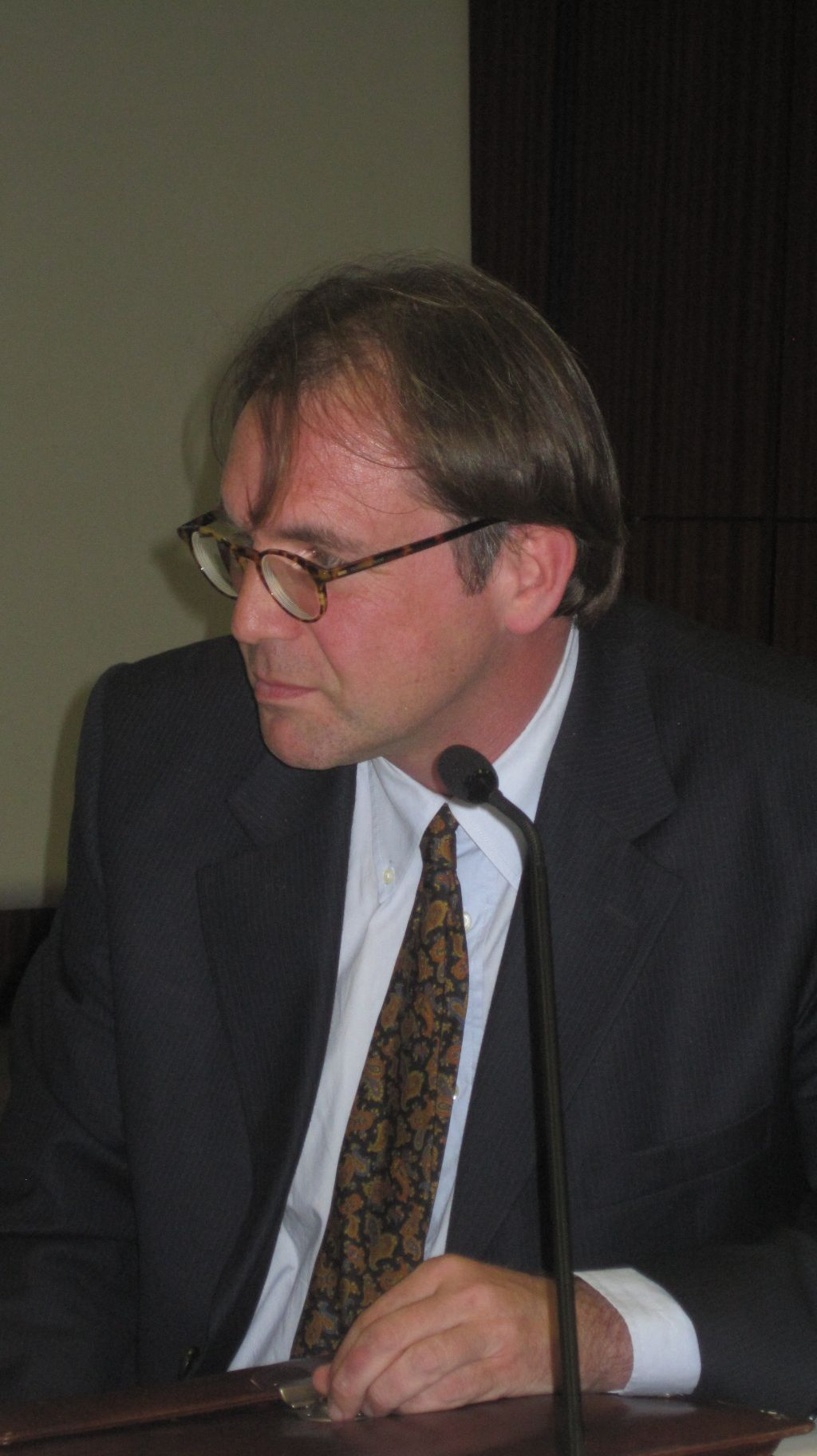 German educator and phenomenologist Andreas Dörpinghaus.